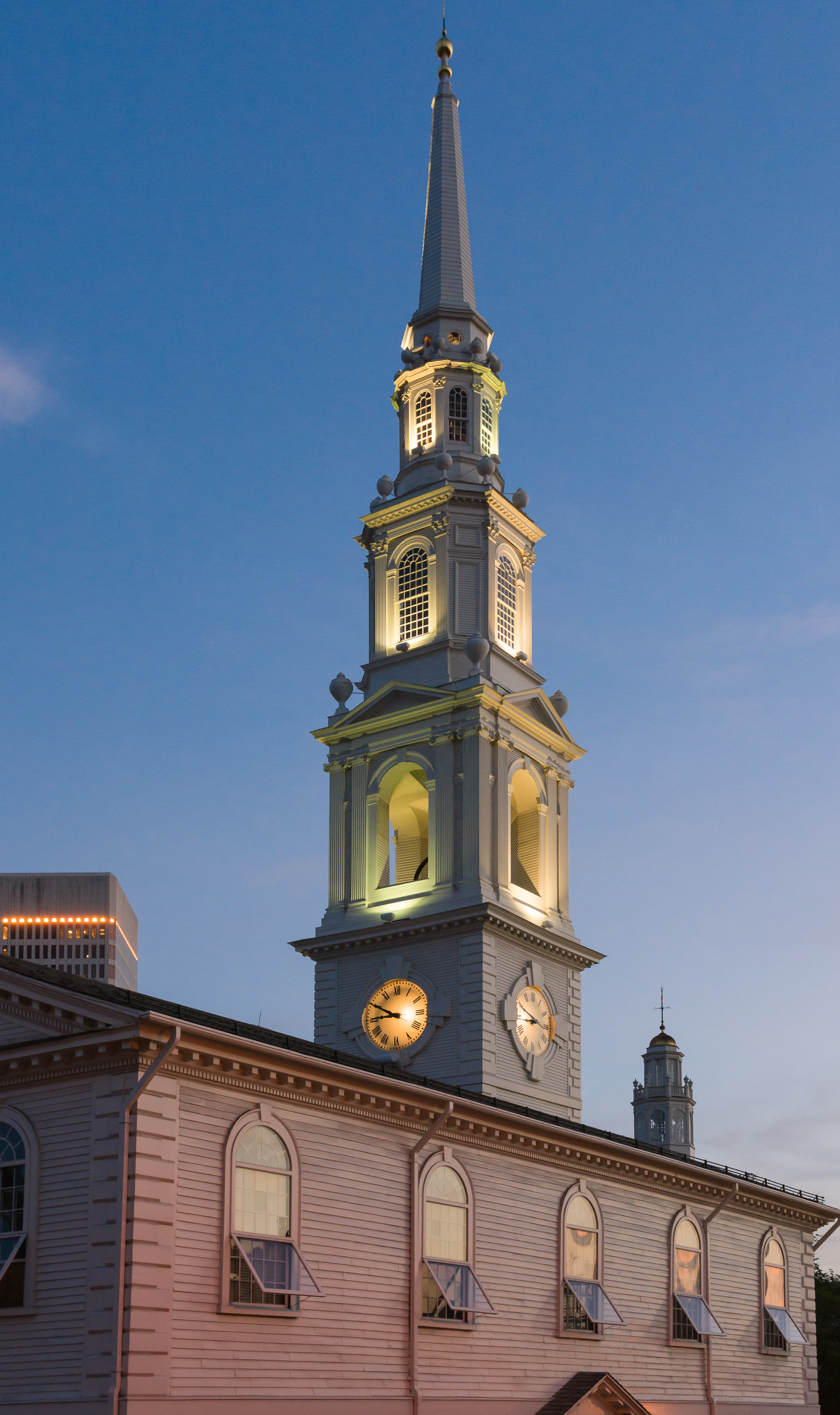 The first Baptist Church in America Providence, Rhode Island, USA